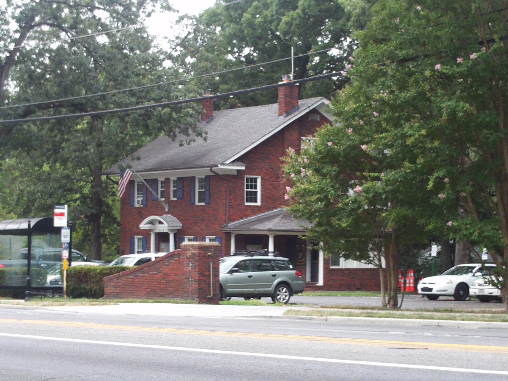 Photo of the town hall of the Town of University Park, MD